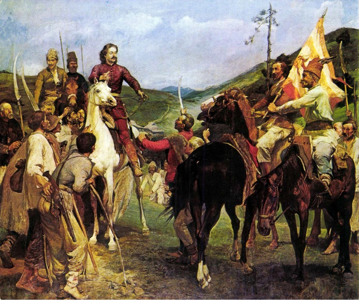 Meeting of Francis II Rakoczi and Tamas Esze